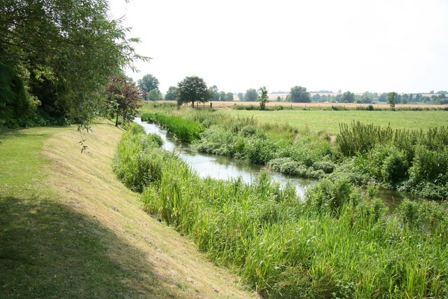 River Gwash The River Gwash alongside the former railway trackbed at Belmesthorpe